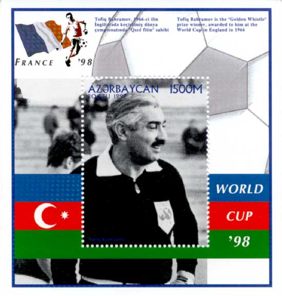 Stamp of Azerbaijan